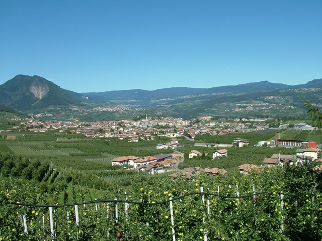 Panorama del paese di Cles, fotografato da sud-ovest